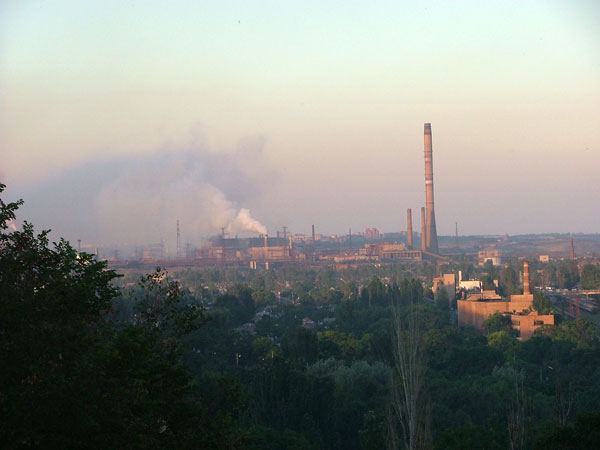 The factory of Ilyich Steel & Iron Works in Mariupol, Donetsk Oblast, Ukraine.